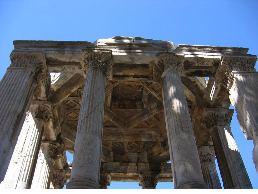 Small-scale copy of Mausolus Mausoleum (locally called Gümüşkesen Monument) in Milas, Turkey